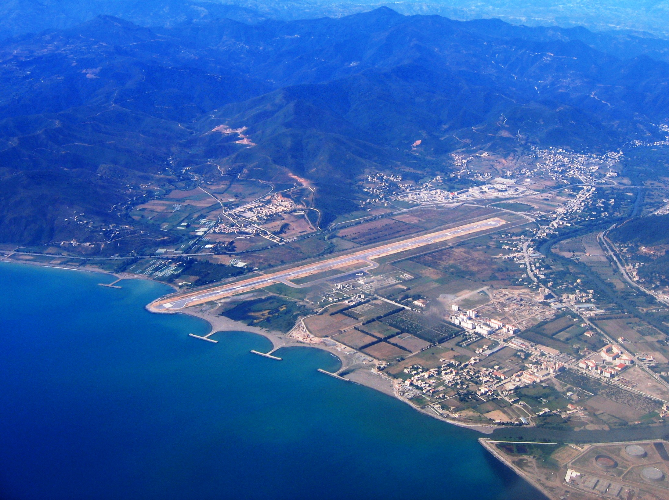 Béjaïa's airport from above